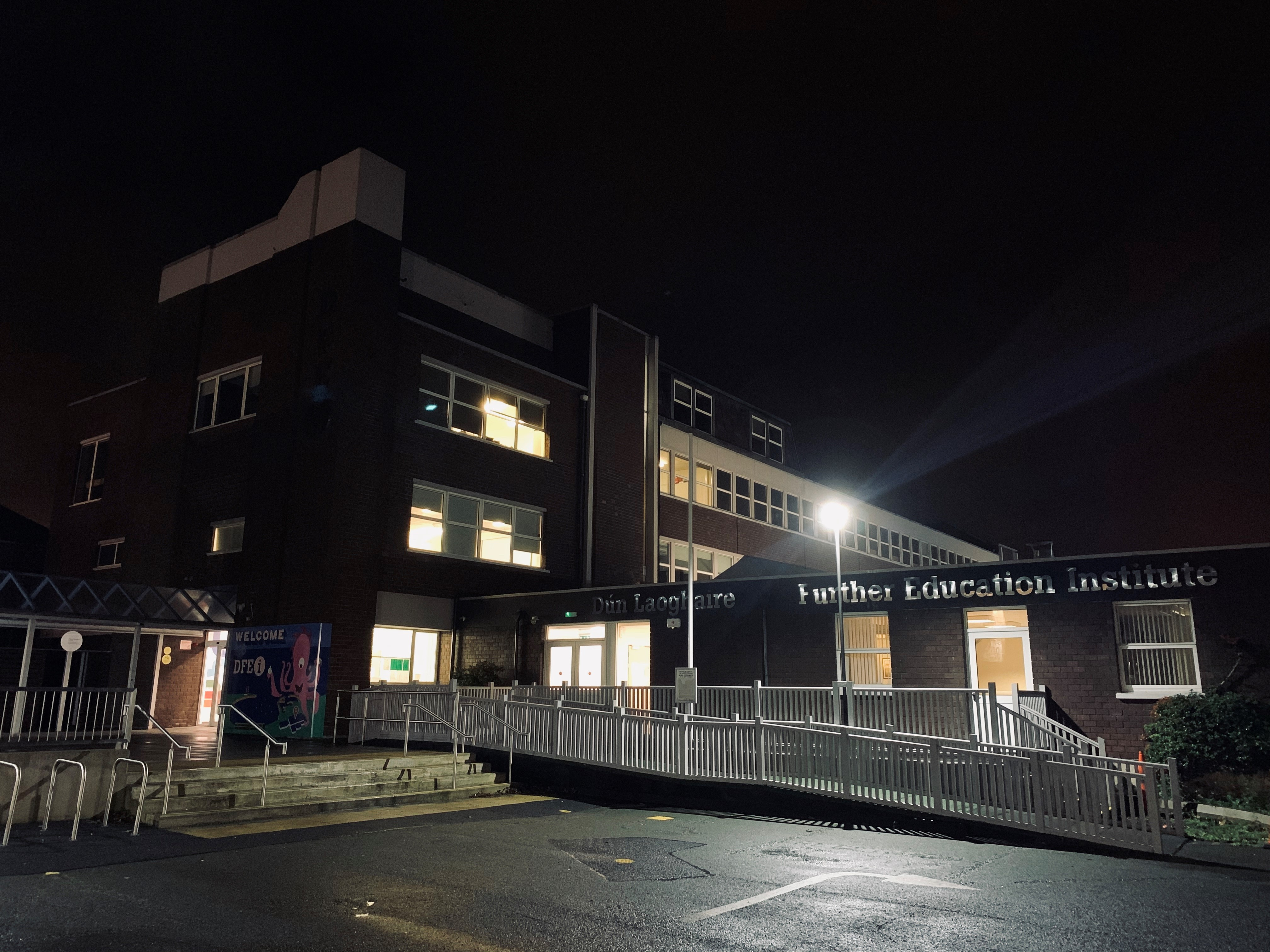 Dun Laoghaire Further Education Institute (DFEi), Cumberland St, Dun Laoghaire provides PLC, Further Education, Adult Education QQI levels 5 and 6 and Apprenticeships.